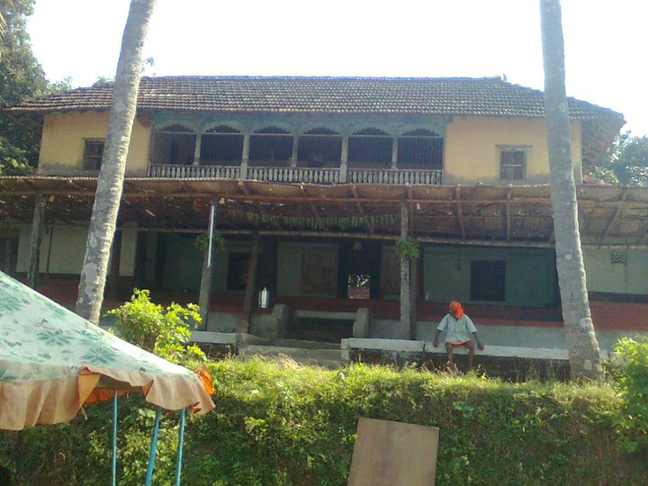 The almost ruined facade of Katapady Beedu,The Manor of the Aristocratic Bunt clan known as Katapady Ballal who were sovereigns of Katapady and surrounding areas in Udupi district,Karnataka State,India